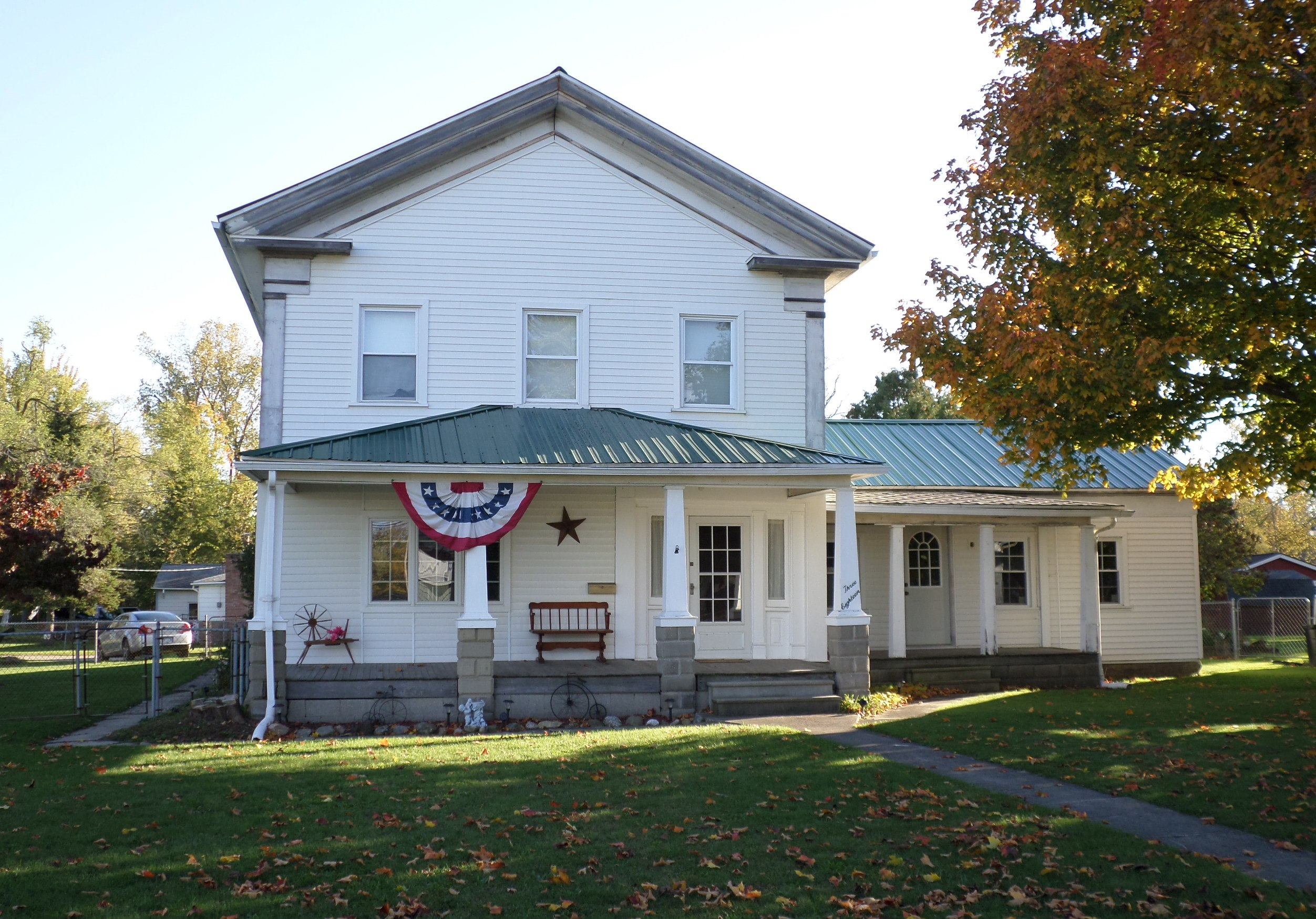 The Governor Andrew Parsons House, located at 318 E McNeil St, Corunna, MI. See also File:Andrew Parsons House sign Corunna.jpg.